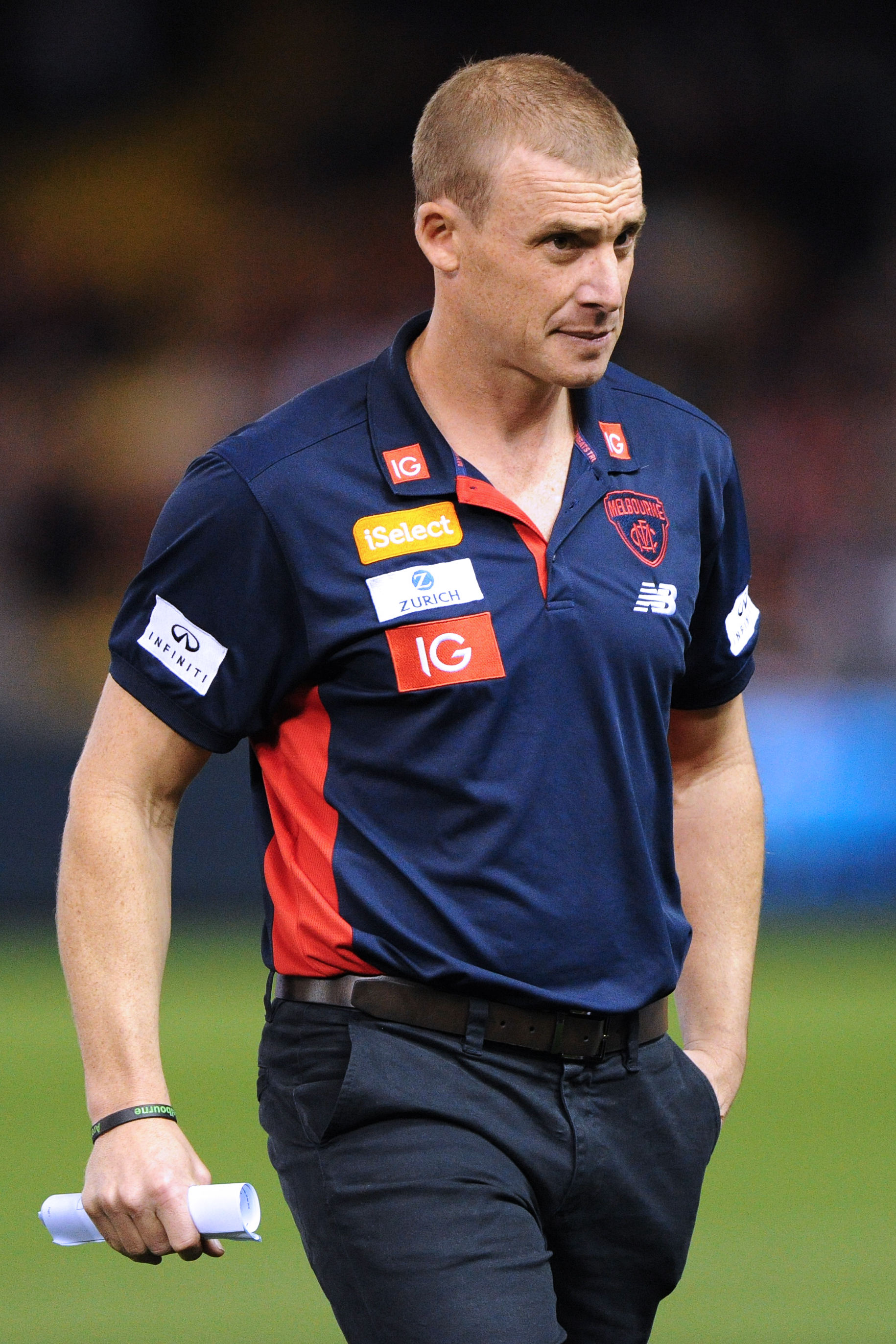 Simon Goodwin of Melbourne during the 2018 AFL round 6 match between Essendon and Melbourne at Etihad Stadium on Sunday, 29 April 2018 in Melbourne, Victoria.